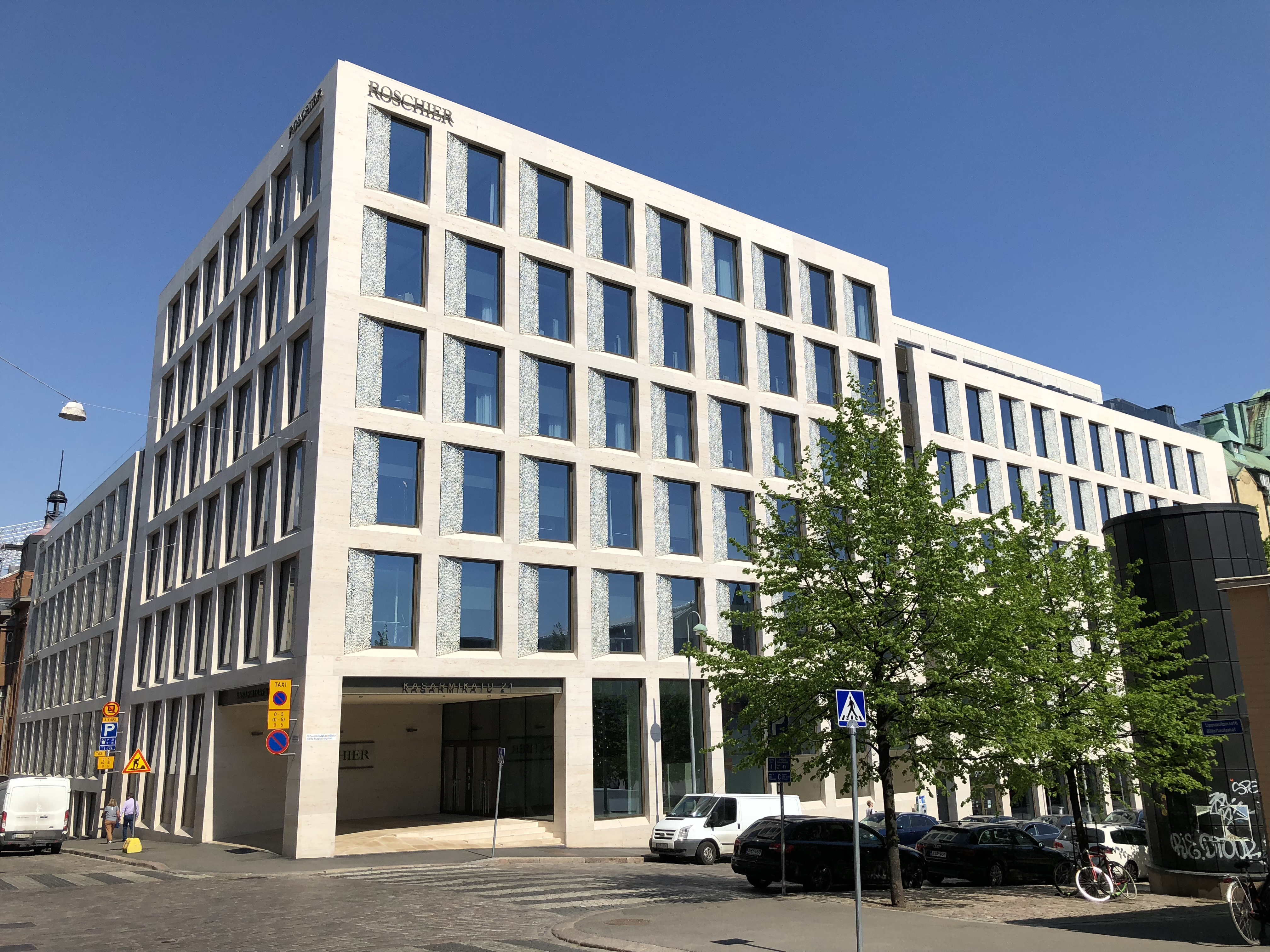 Kasarmikatu 21 Helsinki Finland